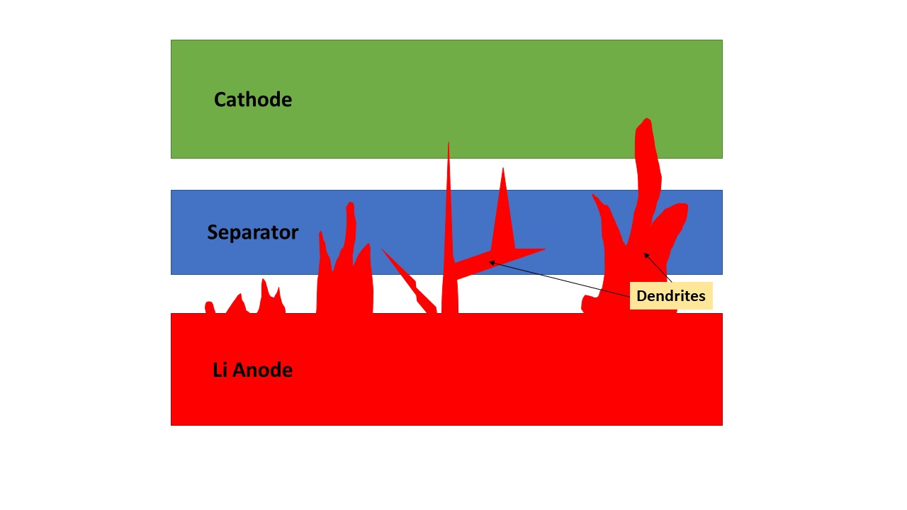 A depiction of lithium metal dendrite from the anode piercing through the separator and growing towards the cathode.